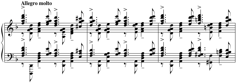 Rachmaninoff's Piano Concerto No. 3 in D minor, an excerpt from the ossia (alternate) cadenza.